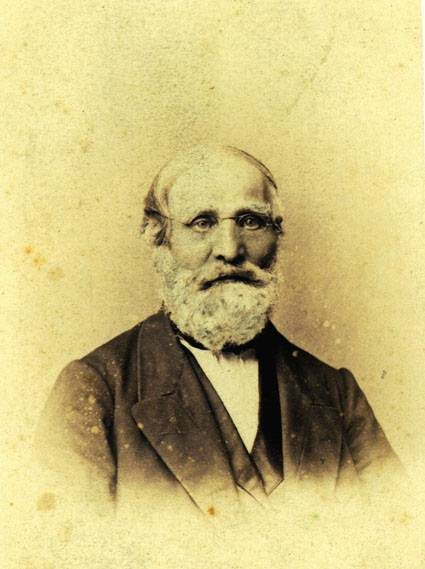 Vilnius physician Anicety Renier (1804-1877)